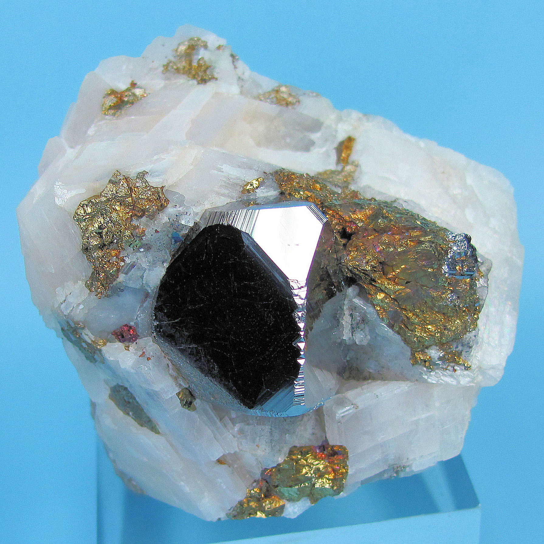 Carrollite, Calcite, Chalcopyrite Locality: Kamoya South II Mine (Kamoya Sud Mine; Kamoya South Mine), Kamoya, Kambove District, Katanga (Shaba), Democratic Republic of the Congo Original description: A mirror-bright sharply formed, undamaged, cuboctahedral carrollite crystal with neat and lustrous faces, accompanied by some chalcopyrite, on a calcite cleavage matrix. As seen in the photos, the crystal shows several stepped edges. Overall size: 52 mm x 46 mm x 41 mm. Carrollite crystal: 19 mm high. Weight: 123 g